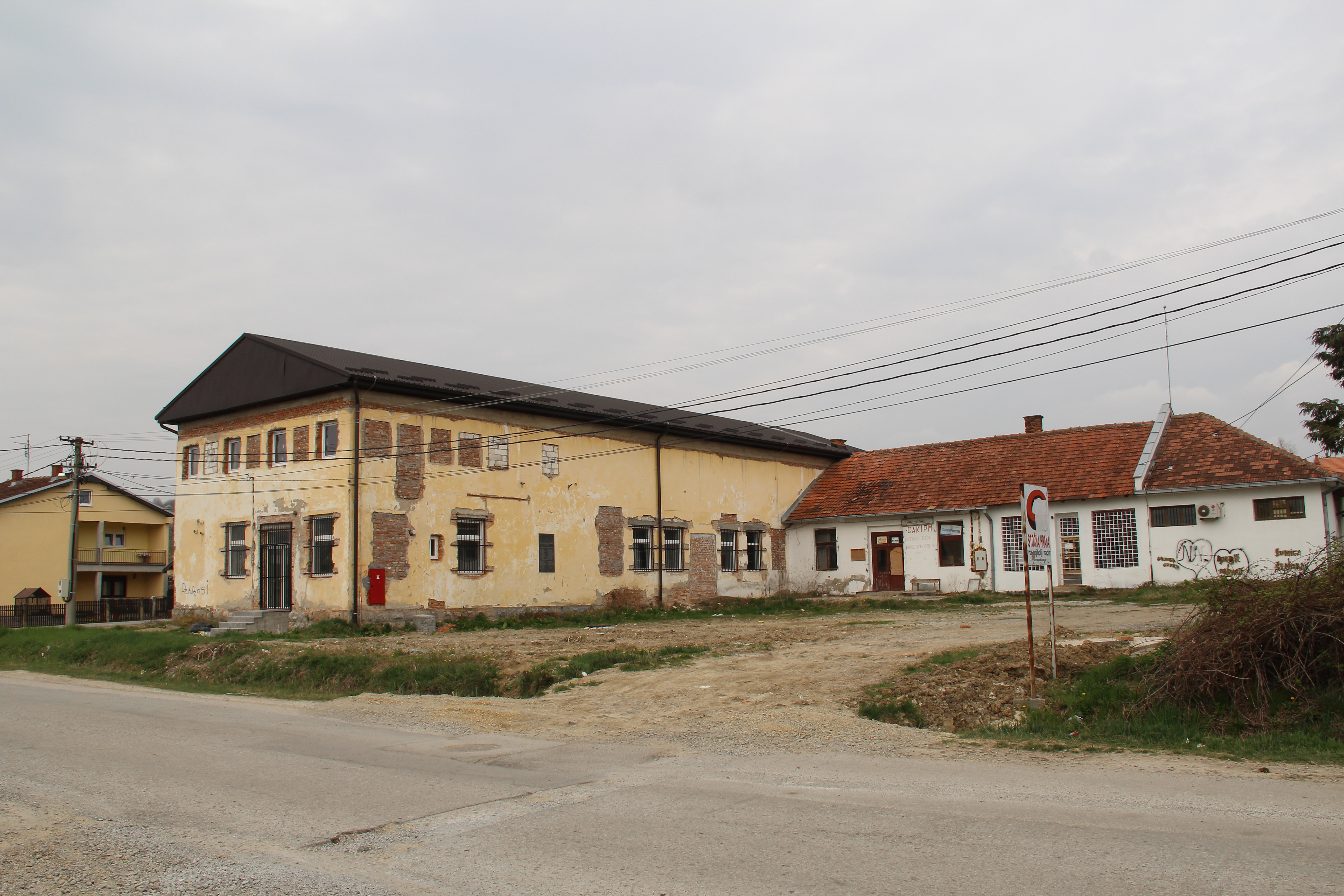 Goric Village - Municipality of Valjevo - Western Serbia - panorama 1